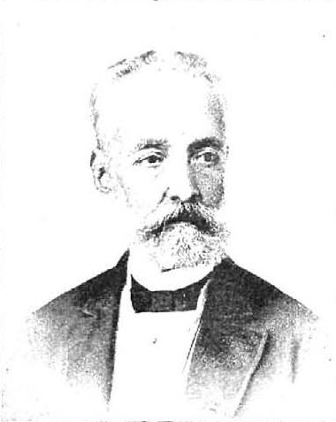 Gabriel Balart i Crehuet. in Barcelona Còmica magazine of 26.1.1895